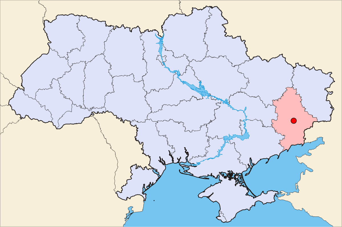 Description = Donetsk geographical position Source = own work, Skluesener Date = 15.01.2006 Author = Skluesener Credits = Colours chosen according to a map of steschke